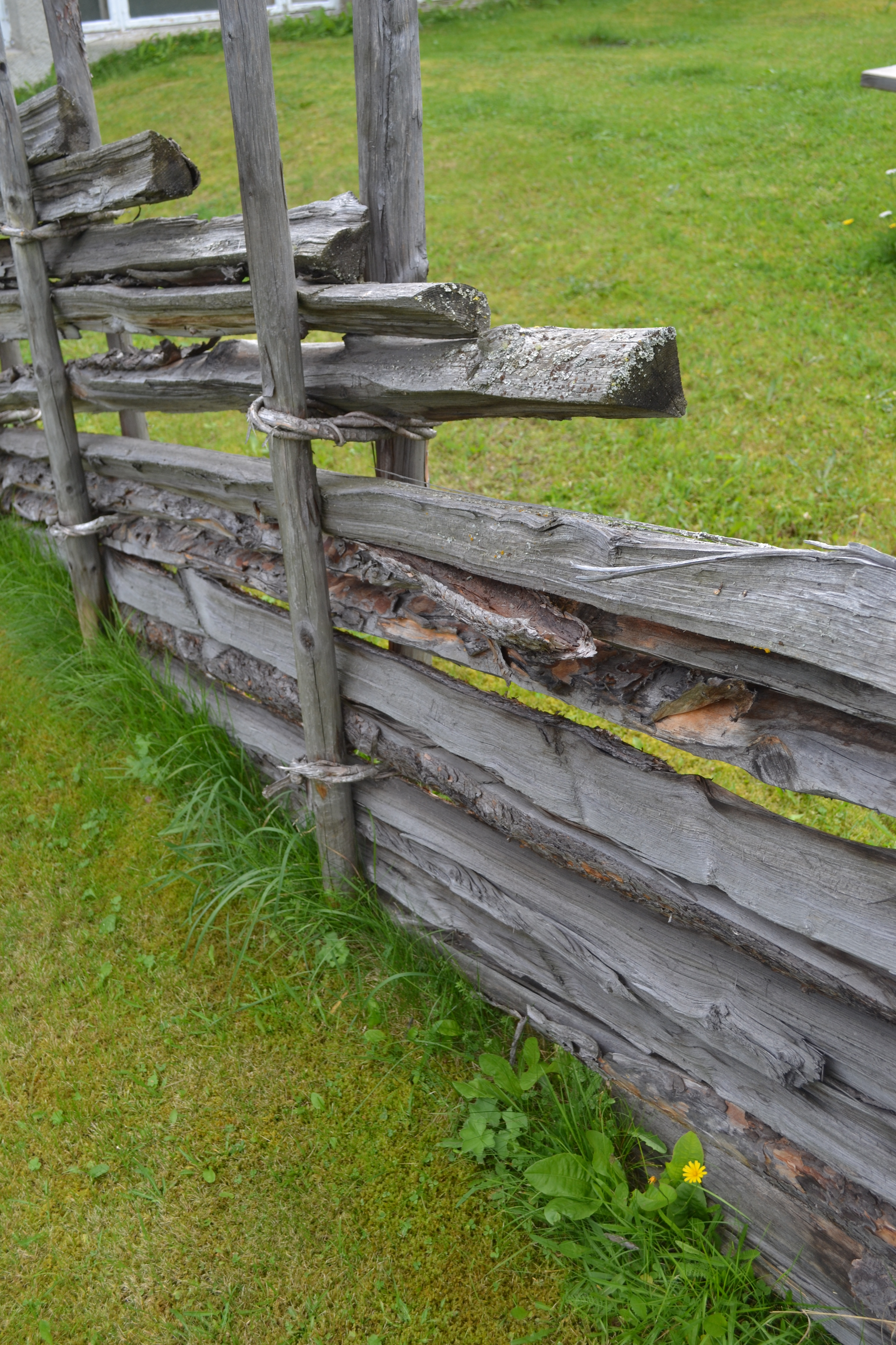 Detail of traditional Norwegian fence at Hjerleid vocational school in Dovre, Norway. Made from slanting rails of split spruce between pairs of uprights.